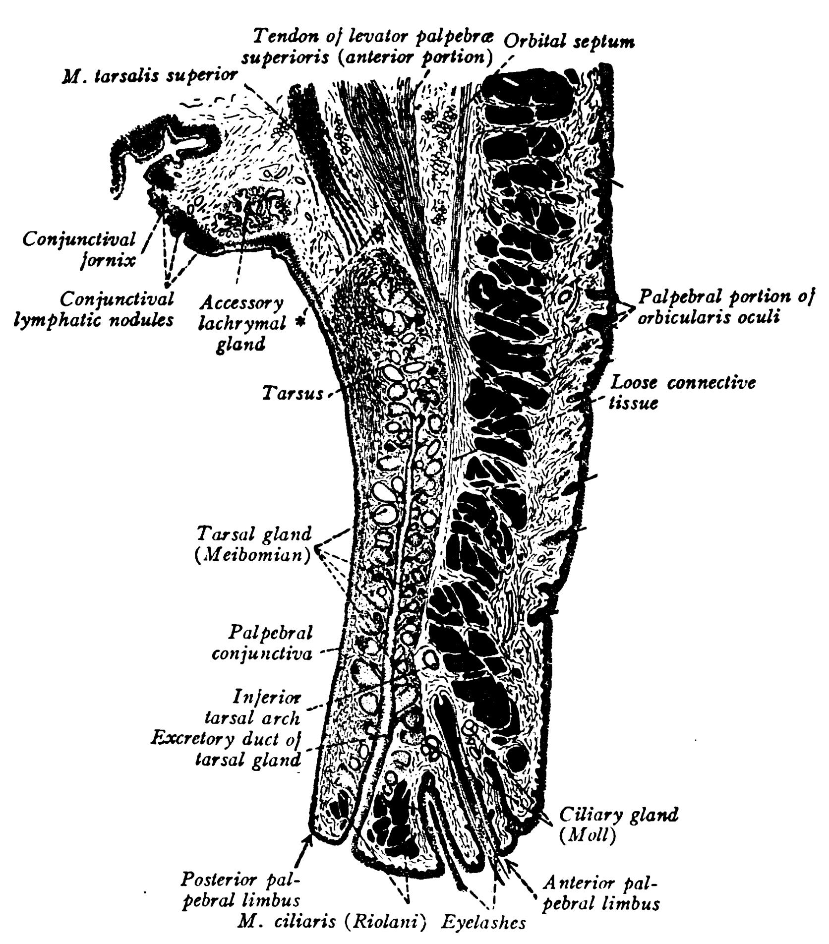 An anatomical illustration from the 1911 edition of Sobotta's Atlas and Text-book of Human Anatomy with English terminology.